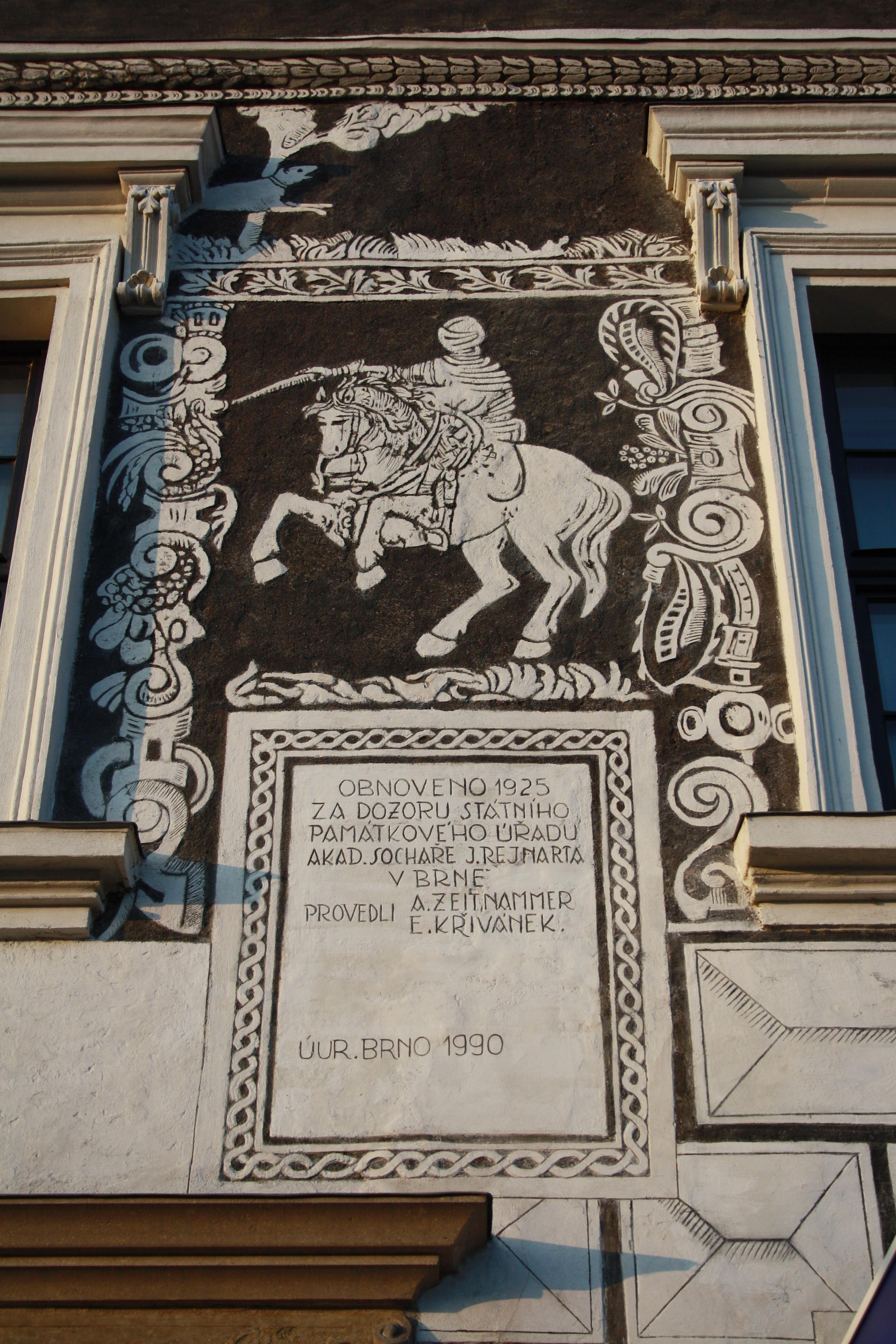 Sgraffitos on wall of Černý dům in Třebíč, Czech Republic.